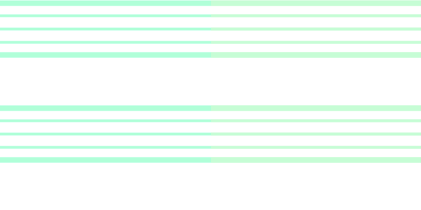 A small file containing an image of the "green-bar" striped paper that used to be used by ancient line printers.